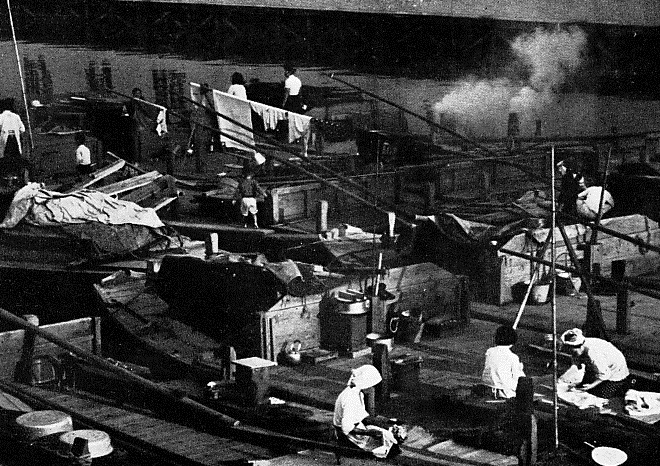 Japanese houseboat people circa 1960